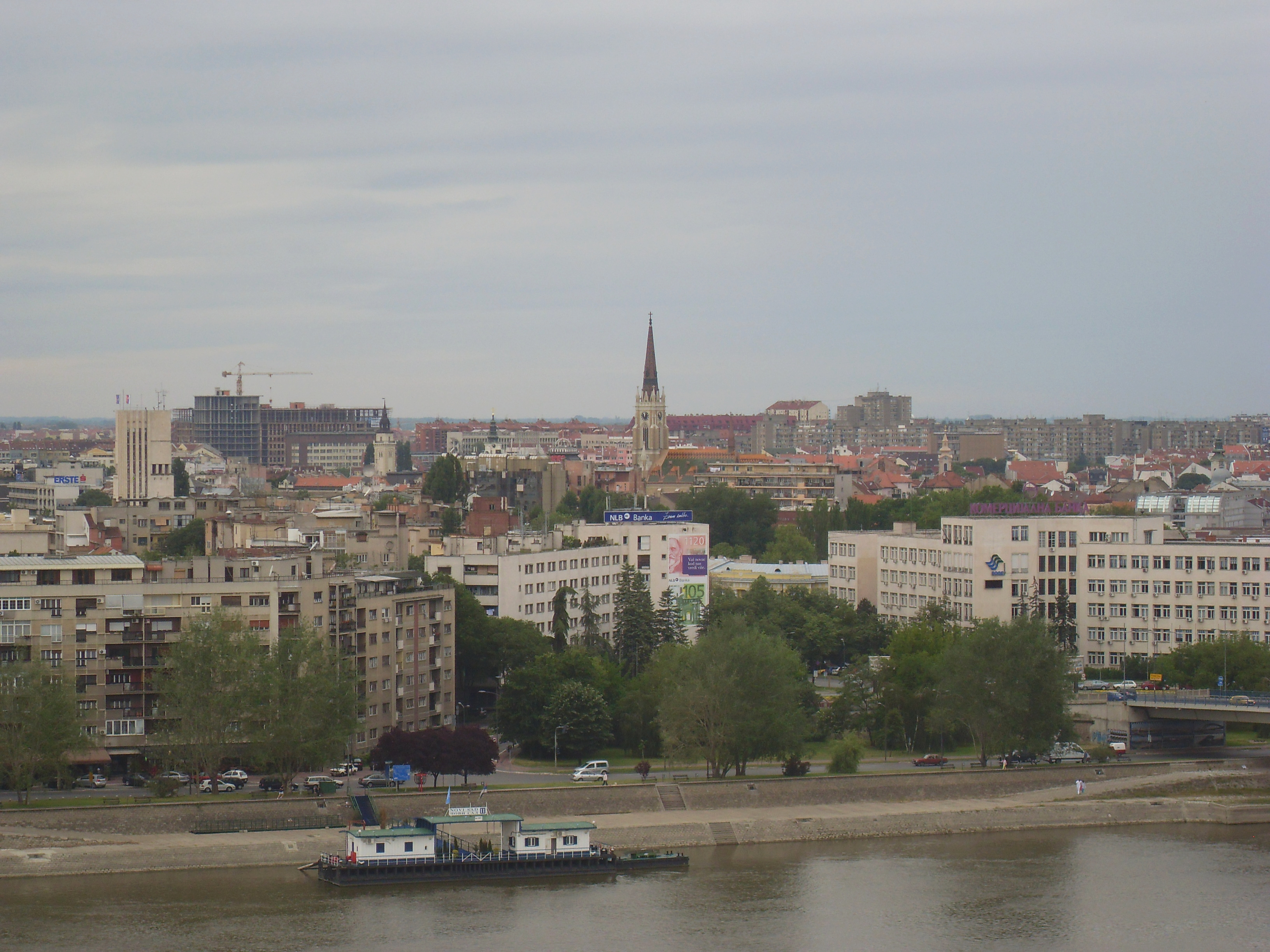 View from the fortress Petrovaradin to the city centre of Novi Sad, Serbia